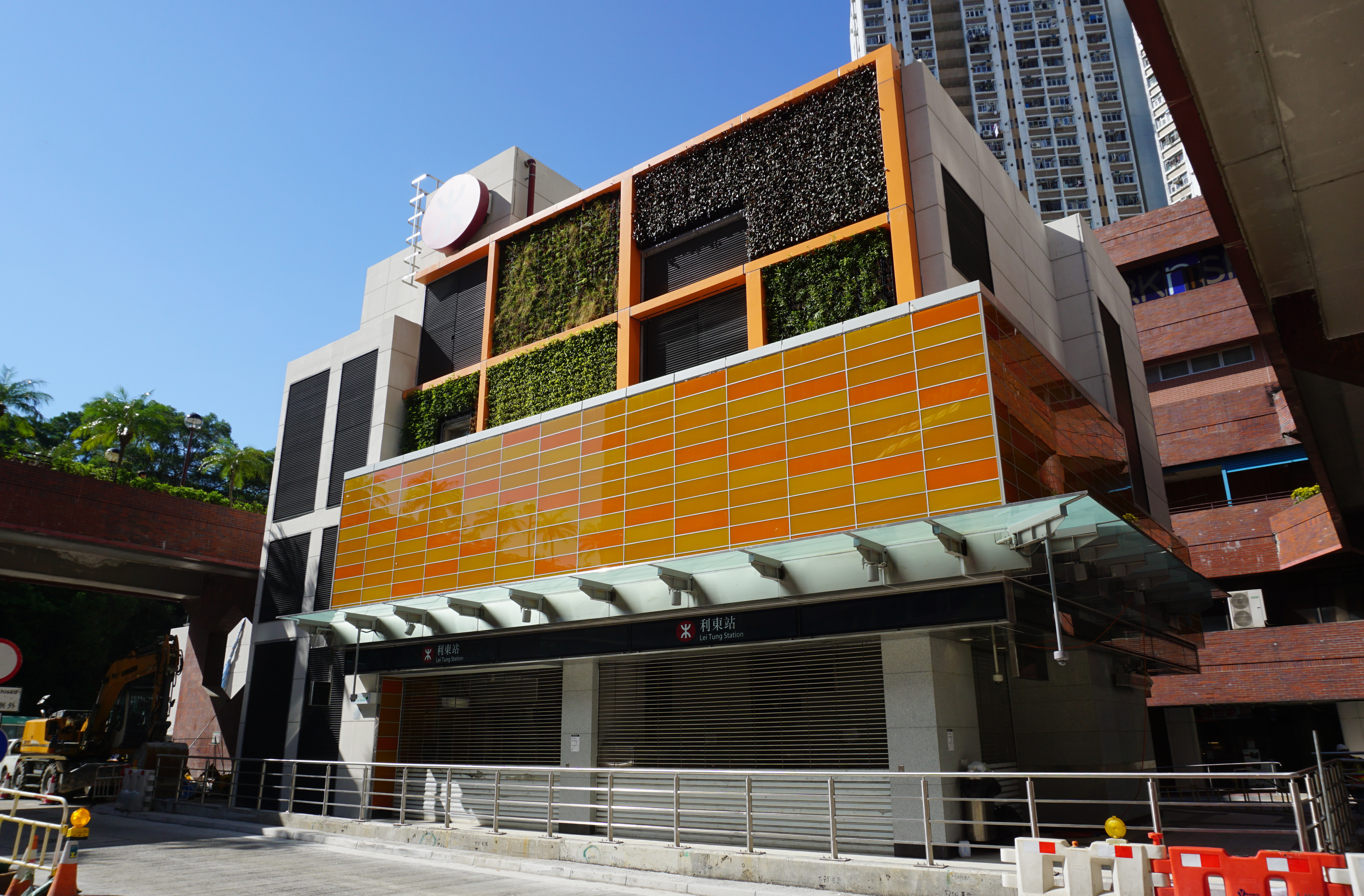 Lei Tung Station in Ap Lei Chau, Hong Kong.